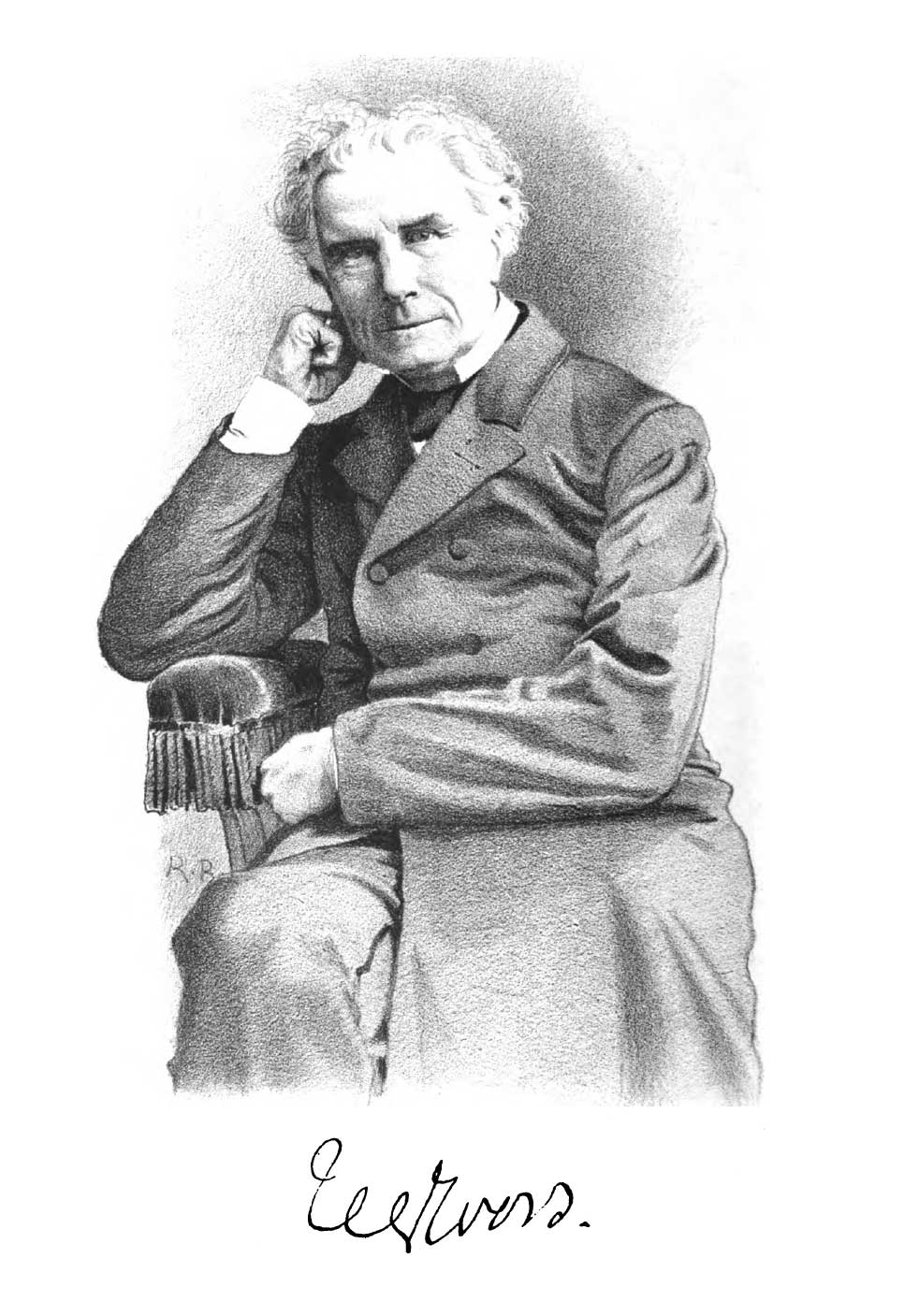 Johan Christiaan Gottlob Evers (1818-1886) Dutch Physician